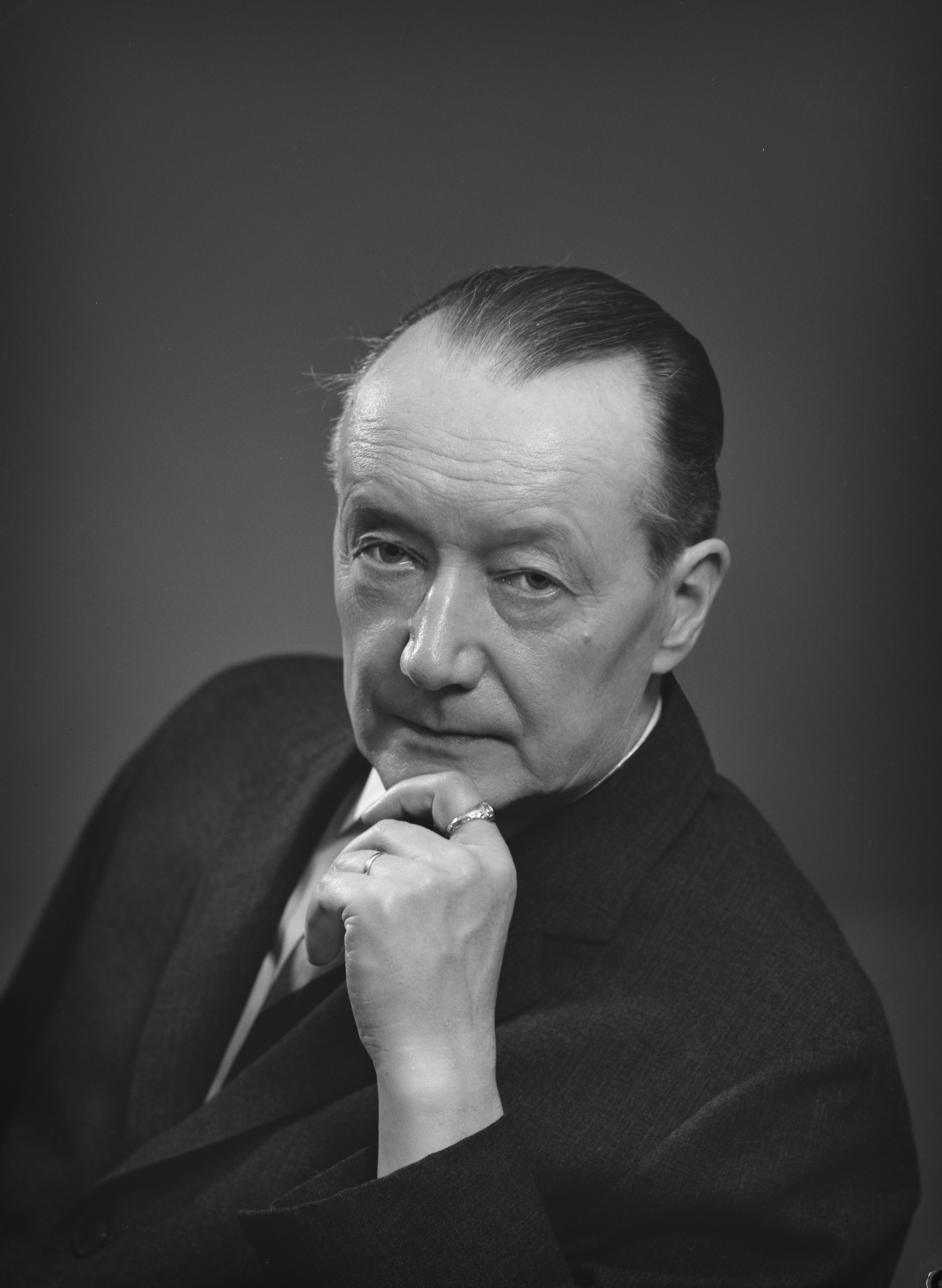 Photograph of the Finnish linguist Lauri Posti (1908–1988).